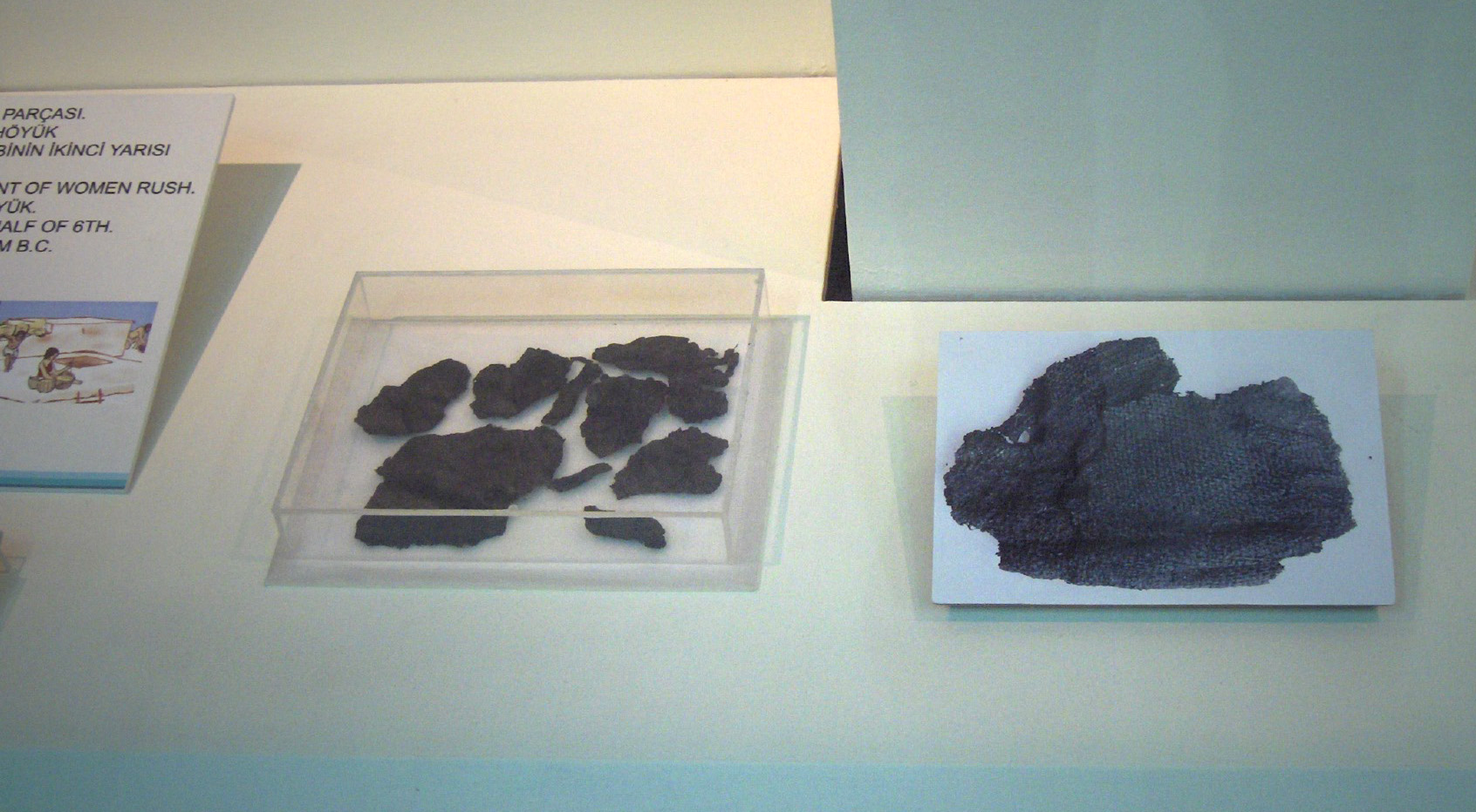 Fragments of earliest-known surviving textile; found at Çatalhöyük; 6th millennium BC; Museum of Anatolian Civilizations, Ankara, Turkey